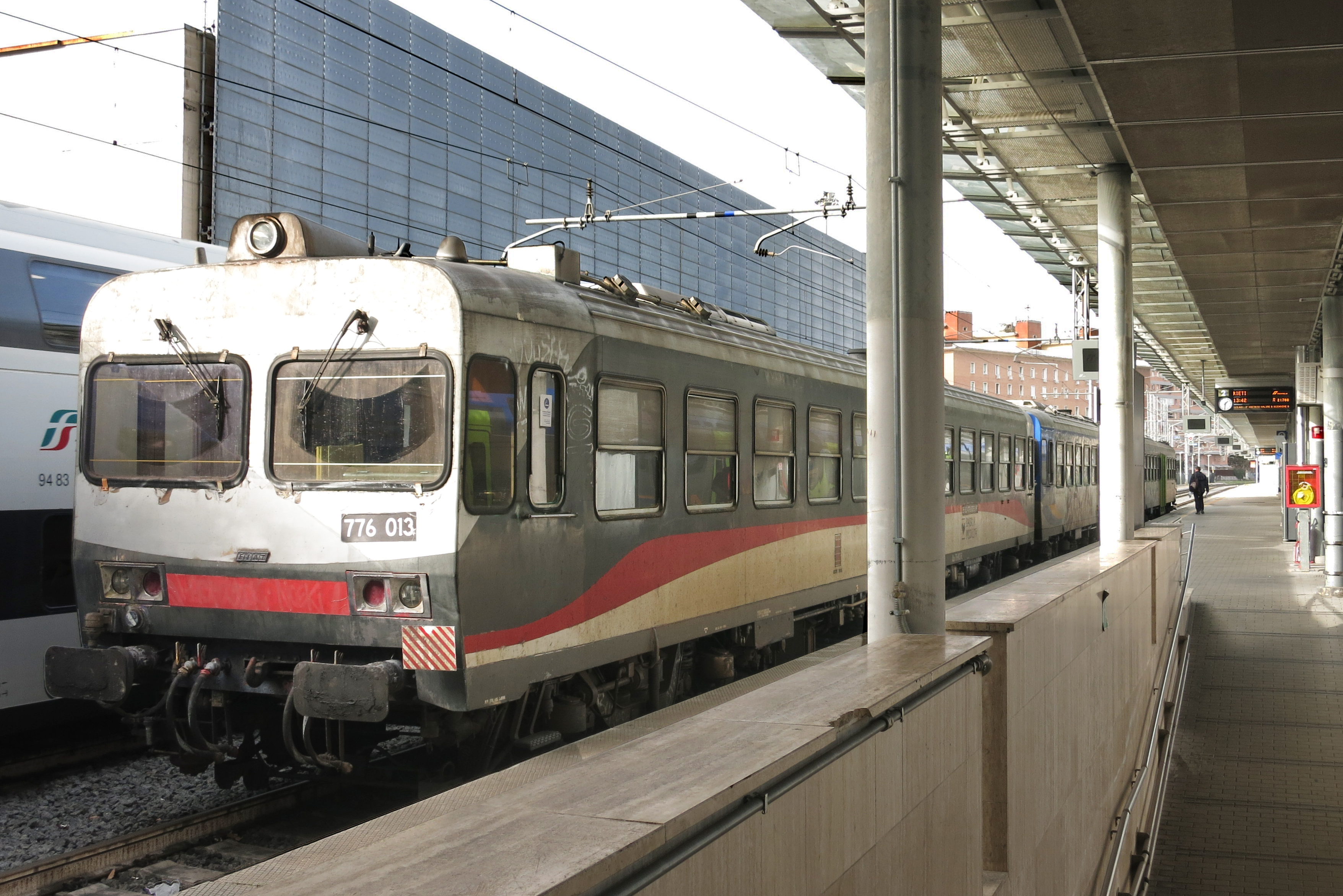 Regional train 21718 coming from Rieti (via Terni and Direttissima high speed line) just arrived at Roma Tiburtina station. It is composed of three FCU ALn 776 DMUs (no. 013 at first position, and the no. 020 in last position).